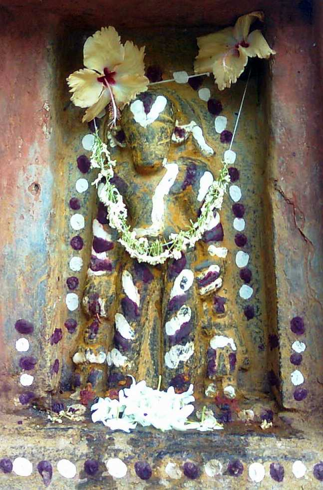 Relief of Varaha Narasimha on walkway to Simhachalam Temple